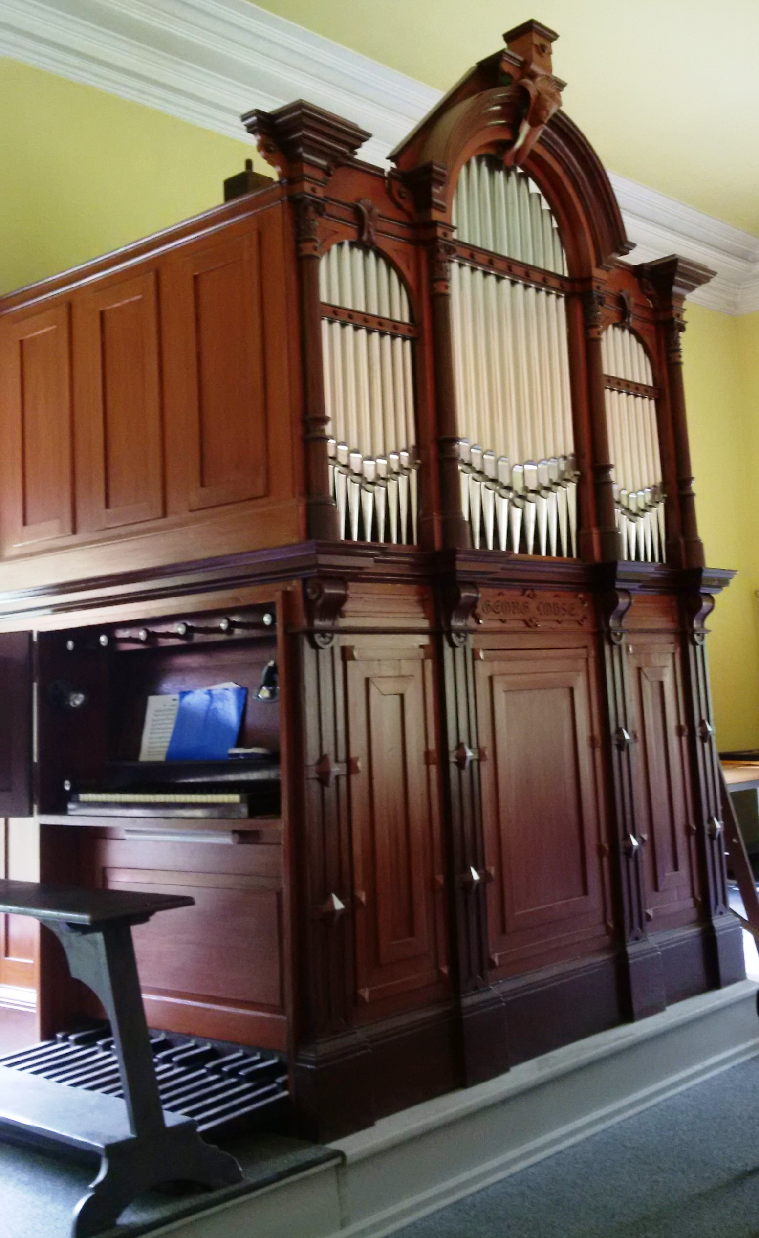 Ladegast organ in Goethe Gymnasium in Weissenfels